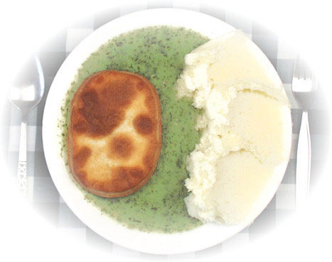 A plate of Pie Mash & Liquor made baked and cooked by staff at